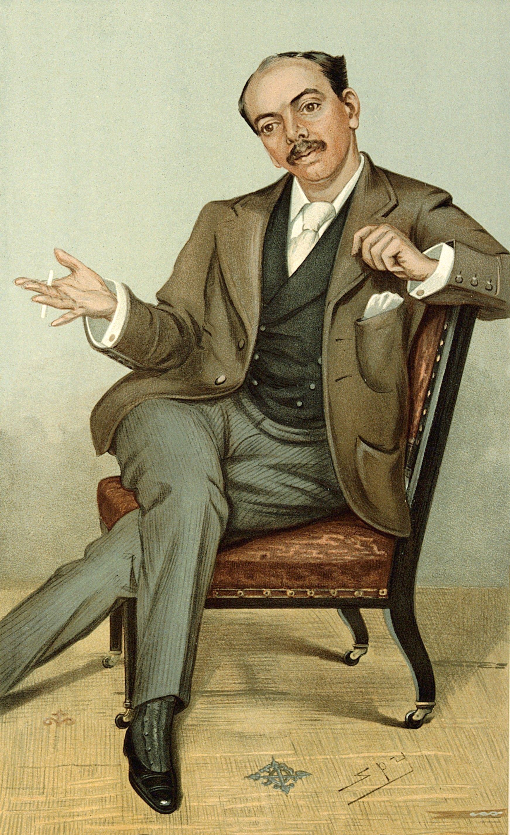 Caricature of Leander Starr Jameson. Caption read "Dr Jim".